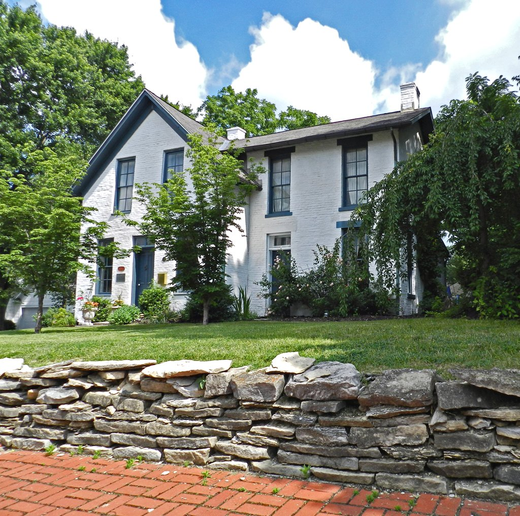 Daughter Kathy and I recently drove streets in Worthington, Ohio, my hometown, that I'd not traveled for over 30 years. I carried a copy of the National Register of Historical Places and saw houses that I'd walked and driven past years ago without noticing. I found the home on West South St. interesting. Besides old houses, Worthington folks have kept many of the brick sidewalks in good repair. From the Worthington Historical Society web site I learned: "The original portion of this house was constructed by the Lewis family in 1857-59, and a two-story wing added by the Nobles in 1883. The original woodwork is intact. It is an important link to the agricultural heritage of the area south of Worthington where the Lewis and Noble families farmed."